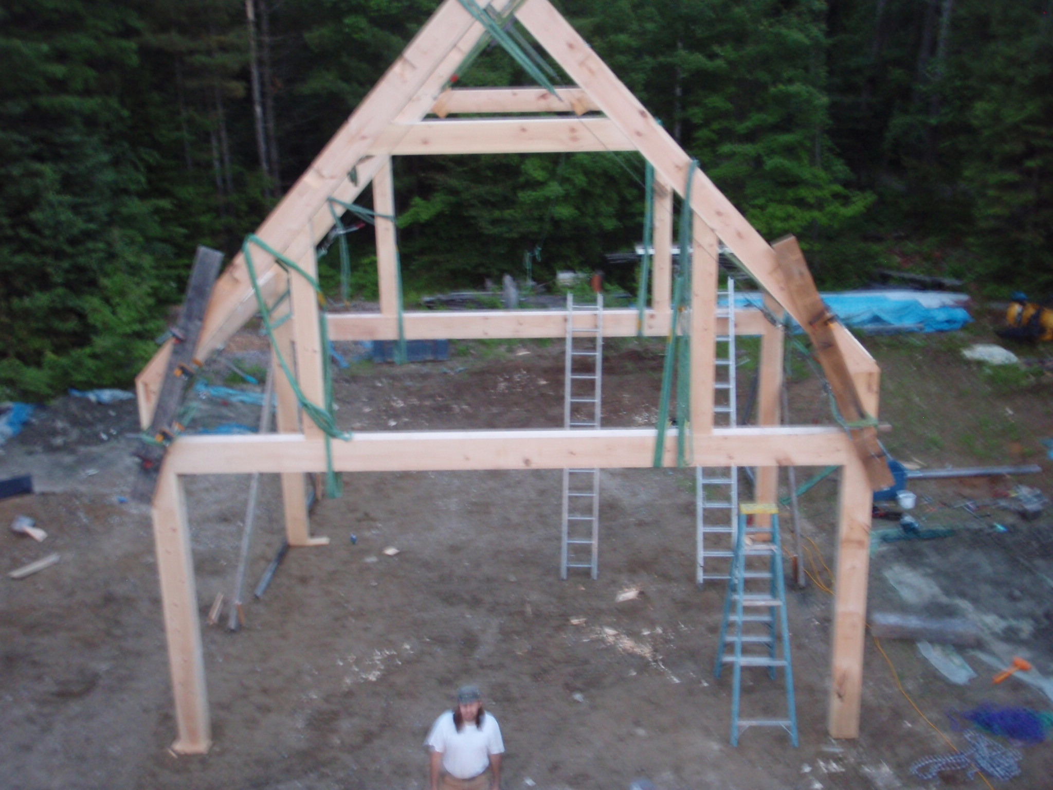 This is a part of a timber frame, before pegs are inserted